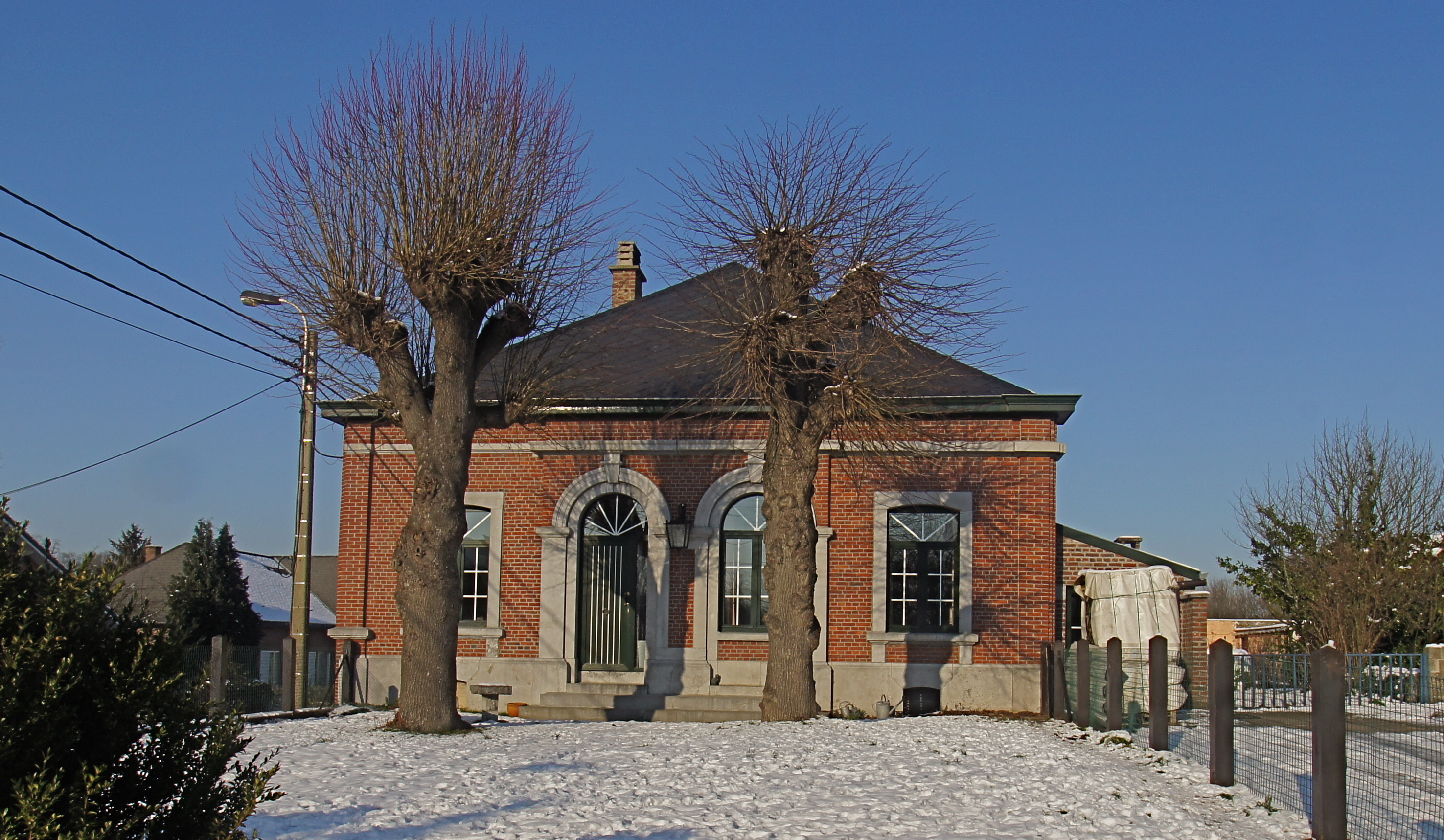 Dalhem (Berneau), Belgium: Former School